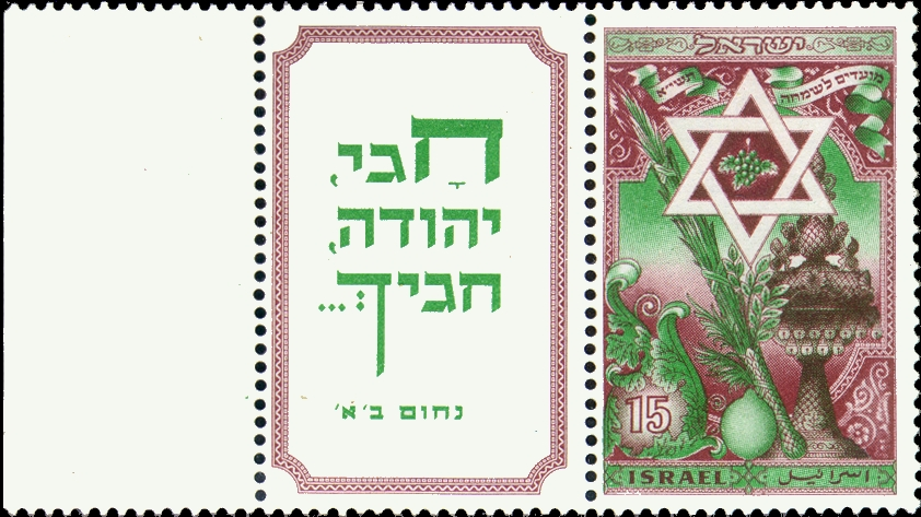 Joyous Festivals 5711 stamp - 15 mil. Inscription on tab: "O Judah, keep thy solemn feasts,..." Nahum II 1.